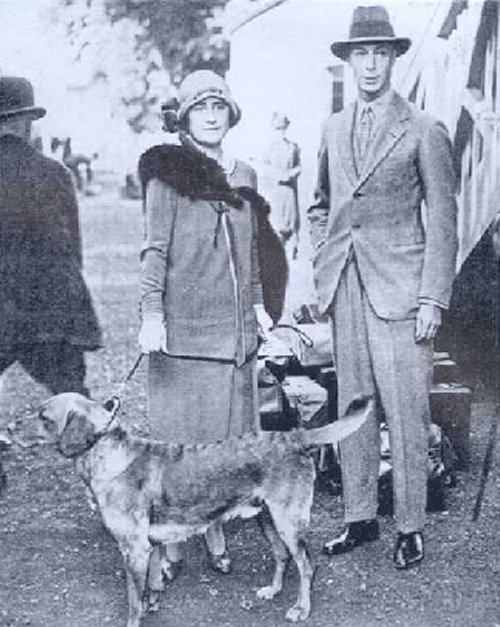 Prince Albert (later King George VI) and his wife Elizabeth Bowes-Lyon, with their yellow labrador. Photo dates to the 1920s. Note the darker butterscotch shade of yellow typical of that time.